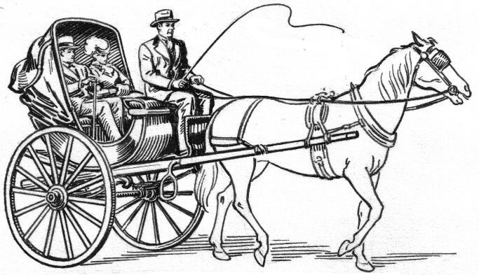 Line art drawing of calash.